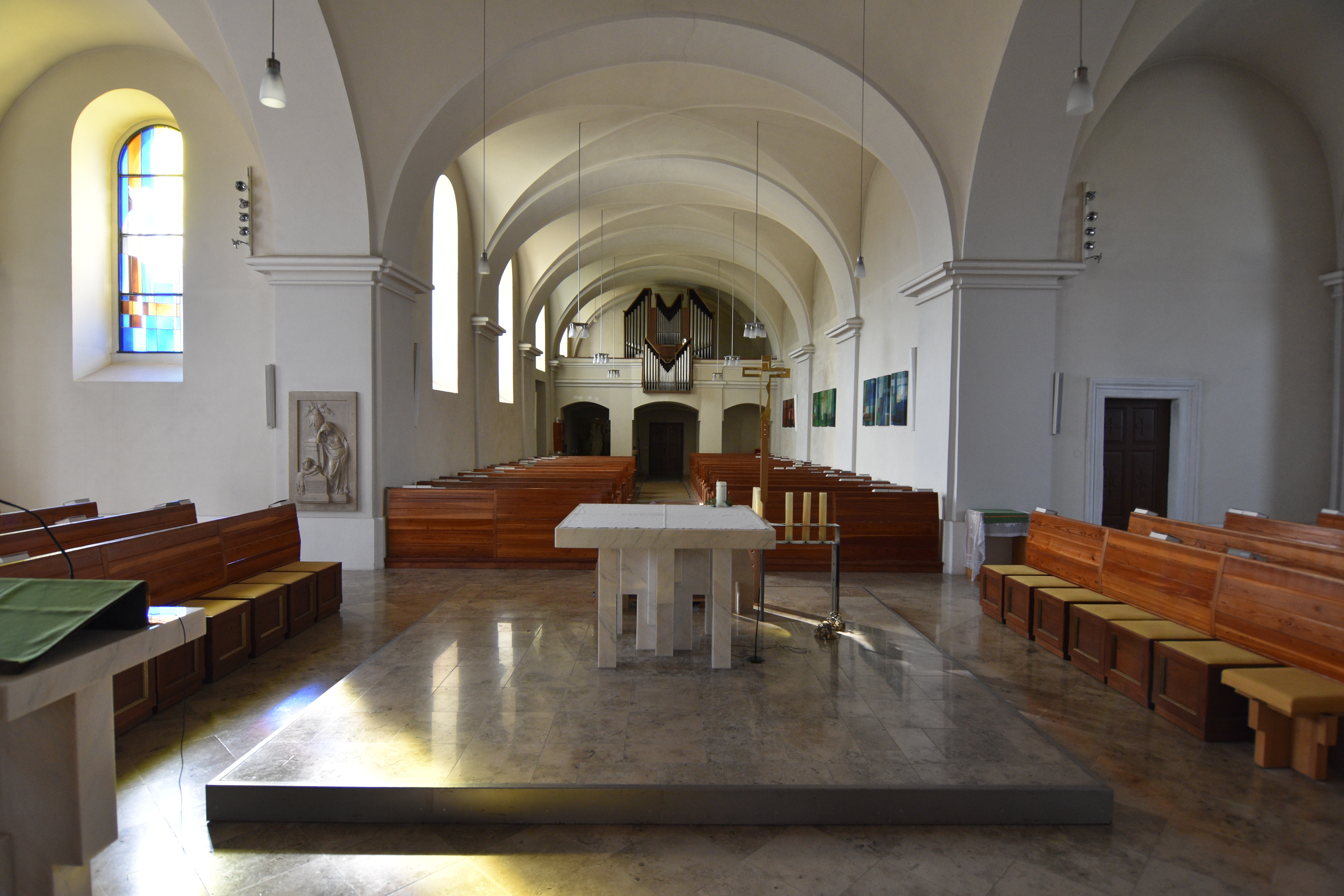 Saints Peter and Paul Church (Kirchfidisch) - Interior